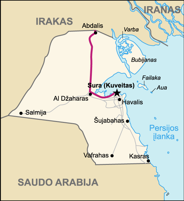 Highway of Death. Map of Kuwait (Lithuanian version)